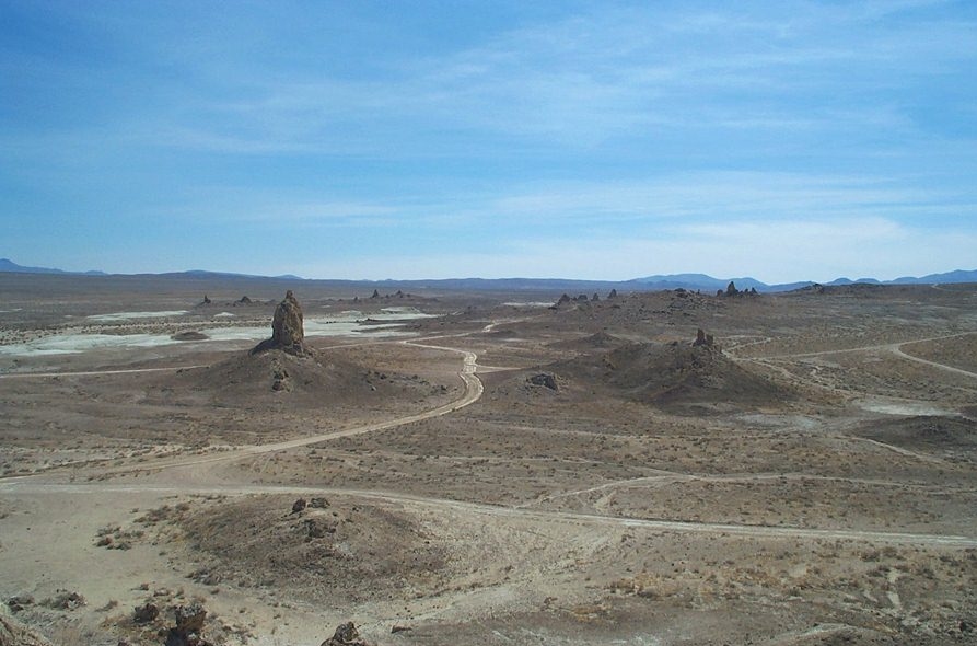 Trona Pinnacles, National Natural Landmark, Mojave Desert